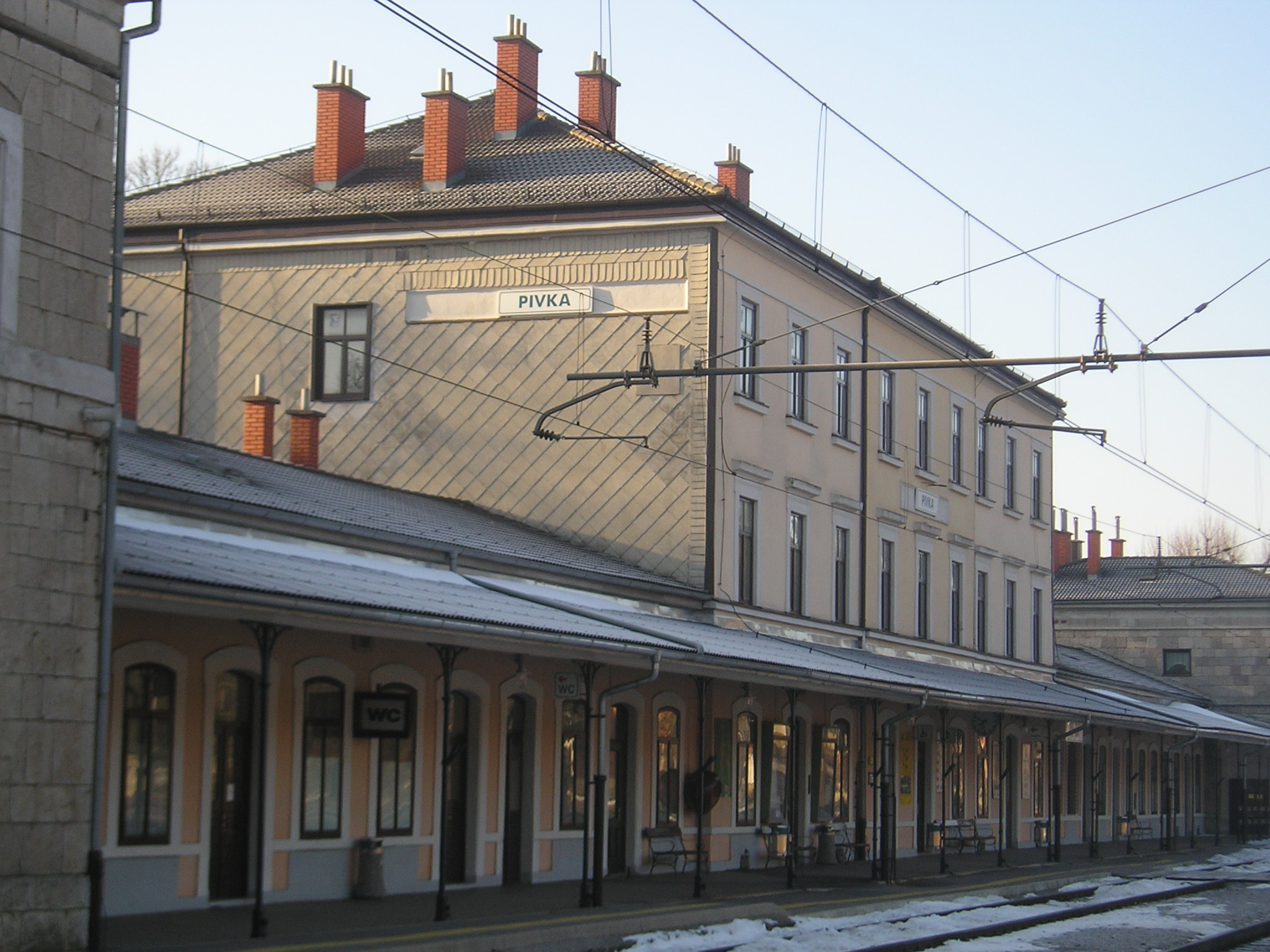 Train station in Pivka, Slovenia